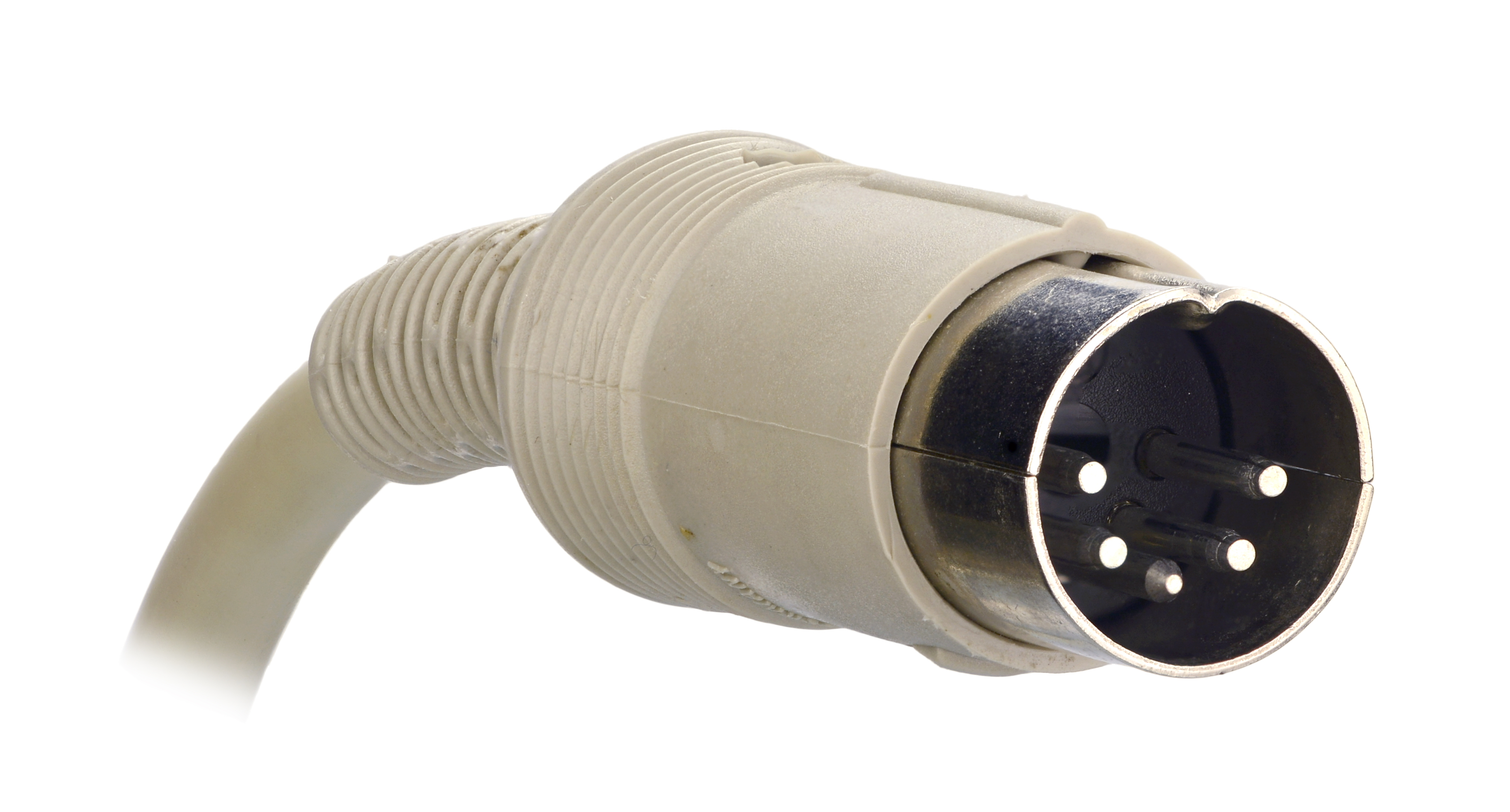 5 Pin DIN connector from the Schneider MF2, a membrane computer keyboard manufactured by Cherry from 1988.